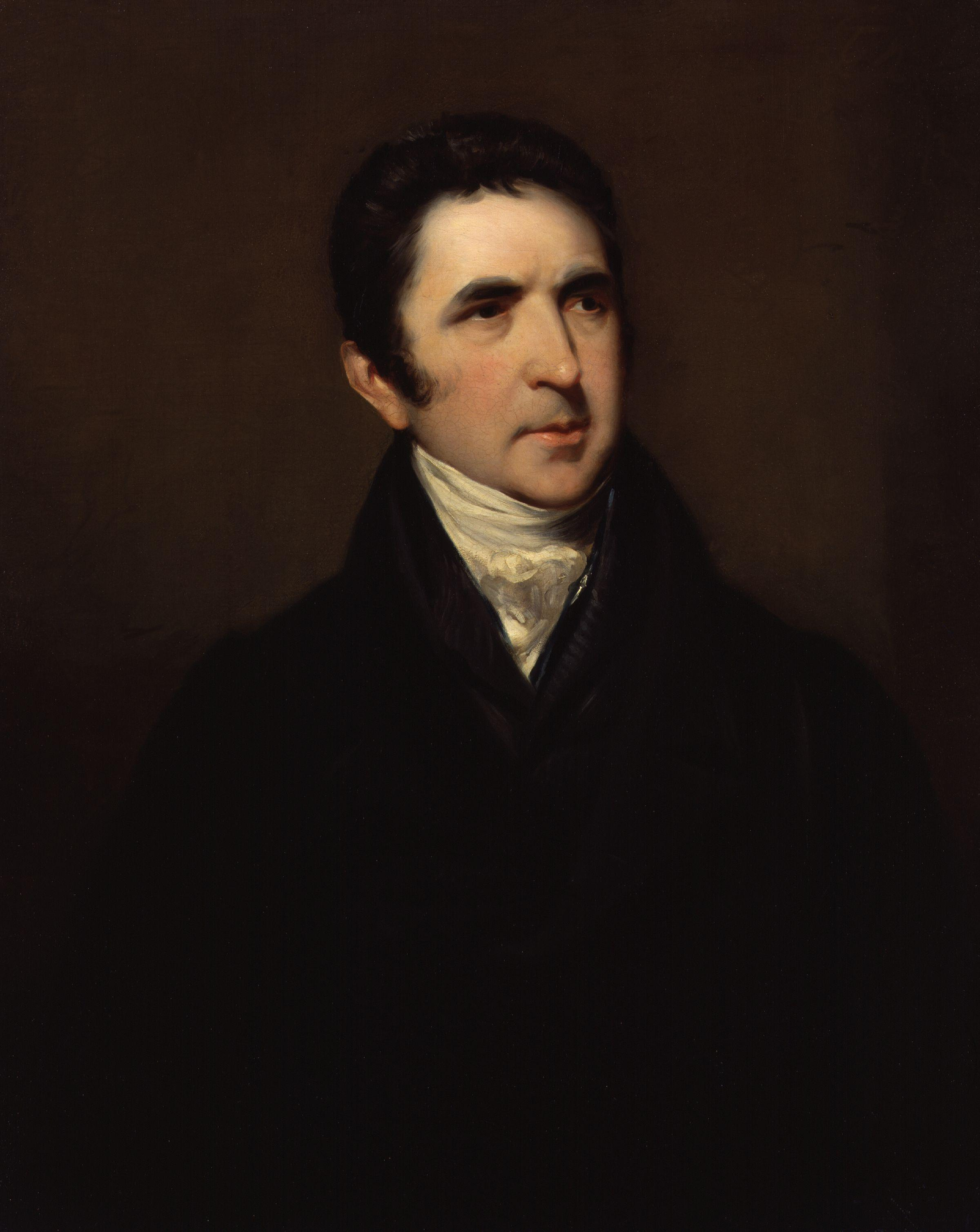 Sir John Barrow, 1st Bt, by John Jackson (died 1831). All images in this batch have been confirmed as author died before 1939 according to the official death date listed by the NPG.